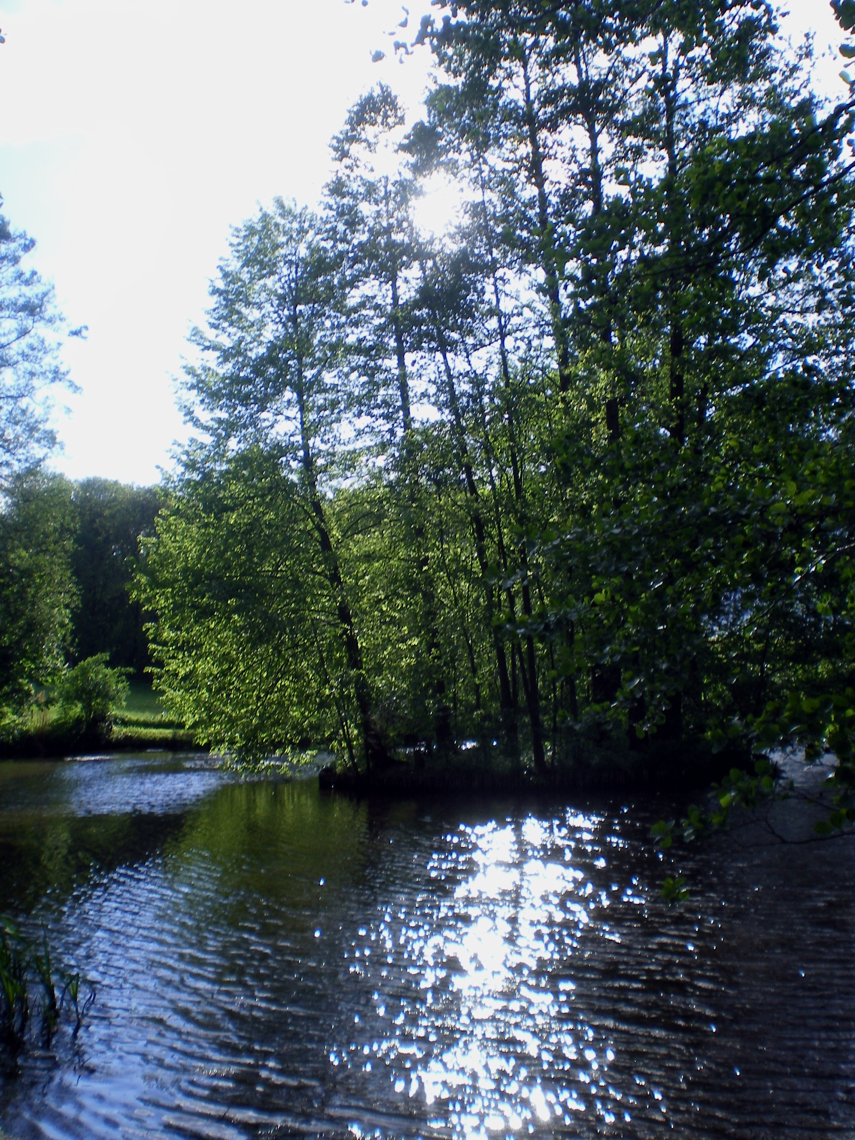 Pond in Schmölln-Selka near Gera/Thuringa in district of Altenburger Land